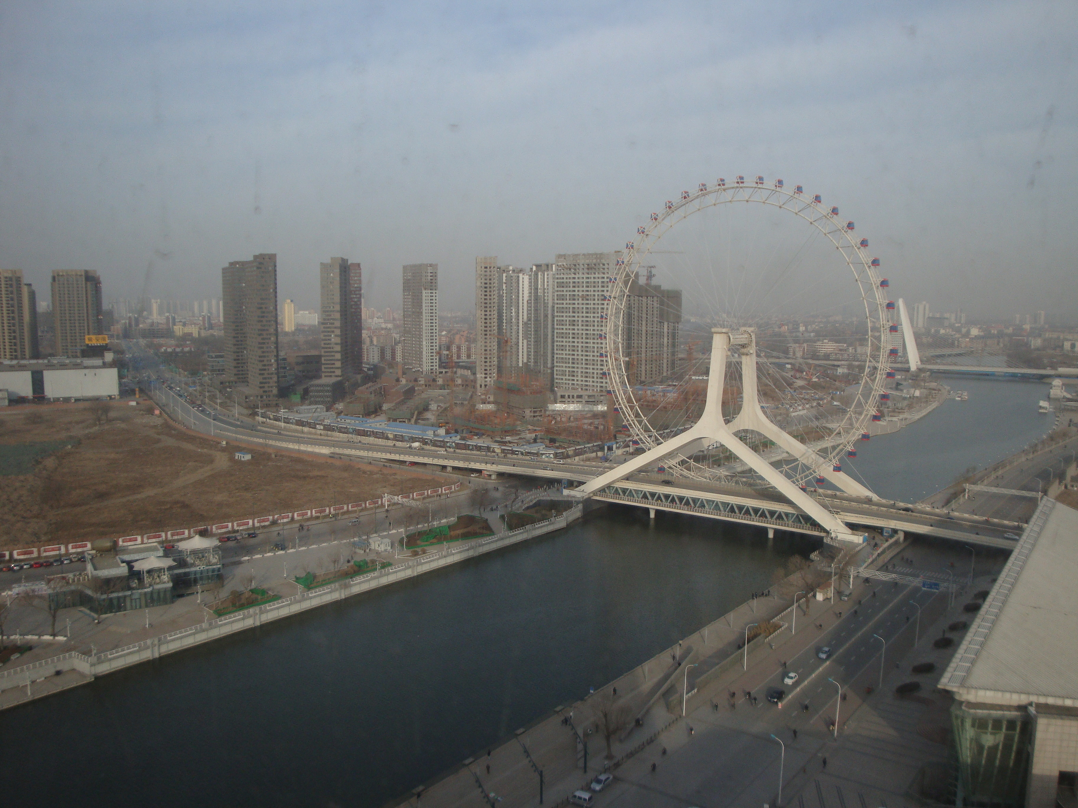 Tianjin Eye, a ferris wheel in Tianjin, China